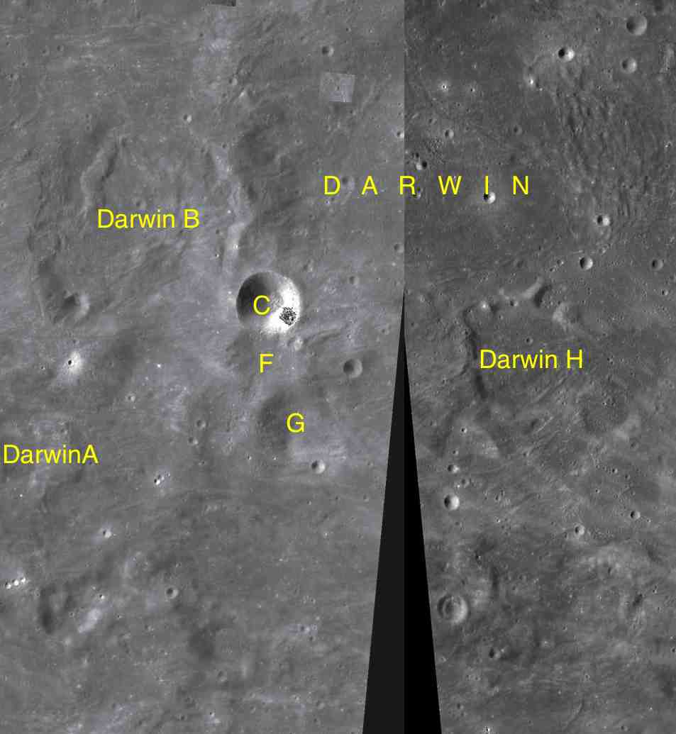 Parts of charts LAC-91, LAC-92 used for the presentation